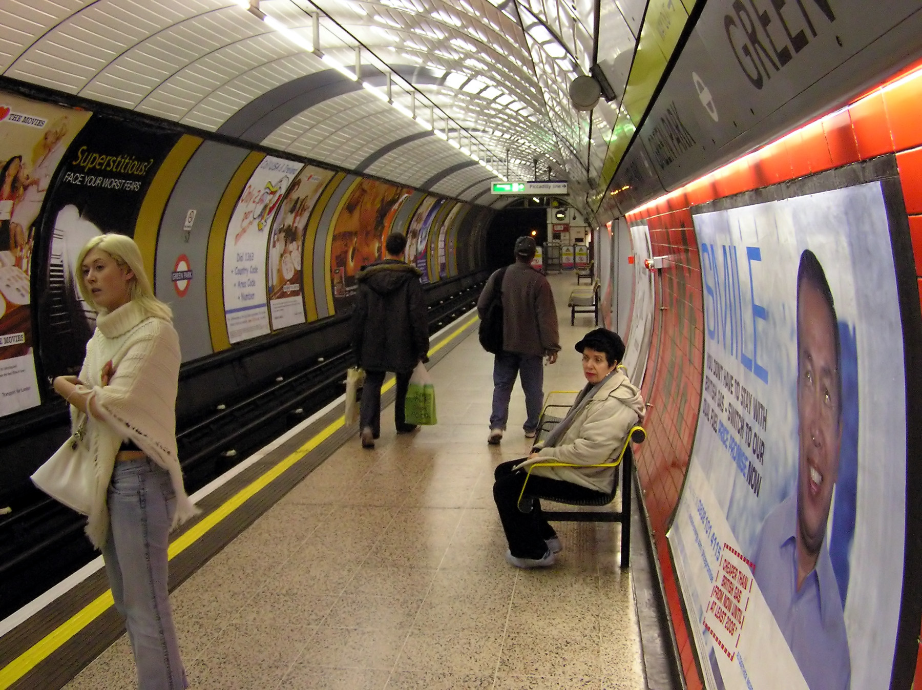 The Jubilee Line at Green Park Tube station, London, England.